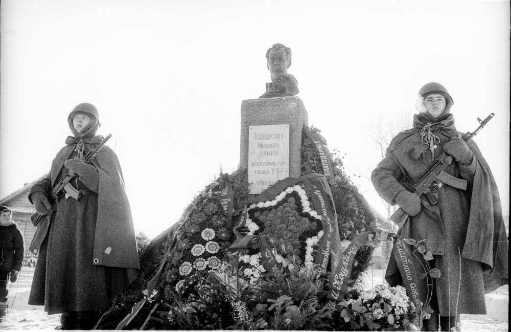 The opening of a bronze bust of the Hero of Socialist Labor Mikhail Ilyich Koshkin Brynchagi in the village. A soldier carries an honor guard at the monument.